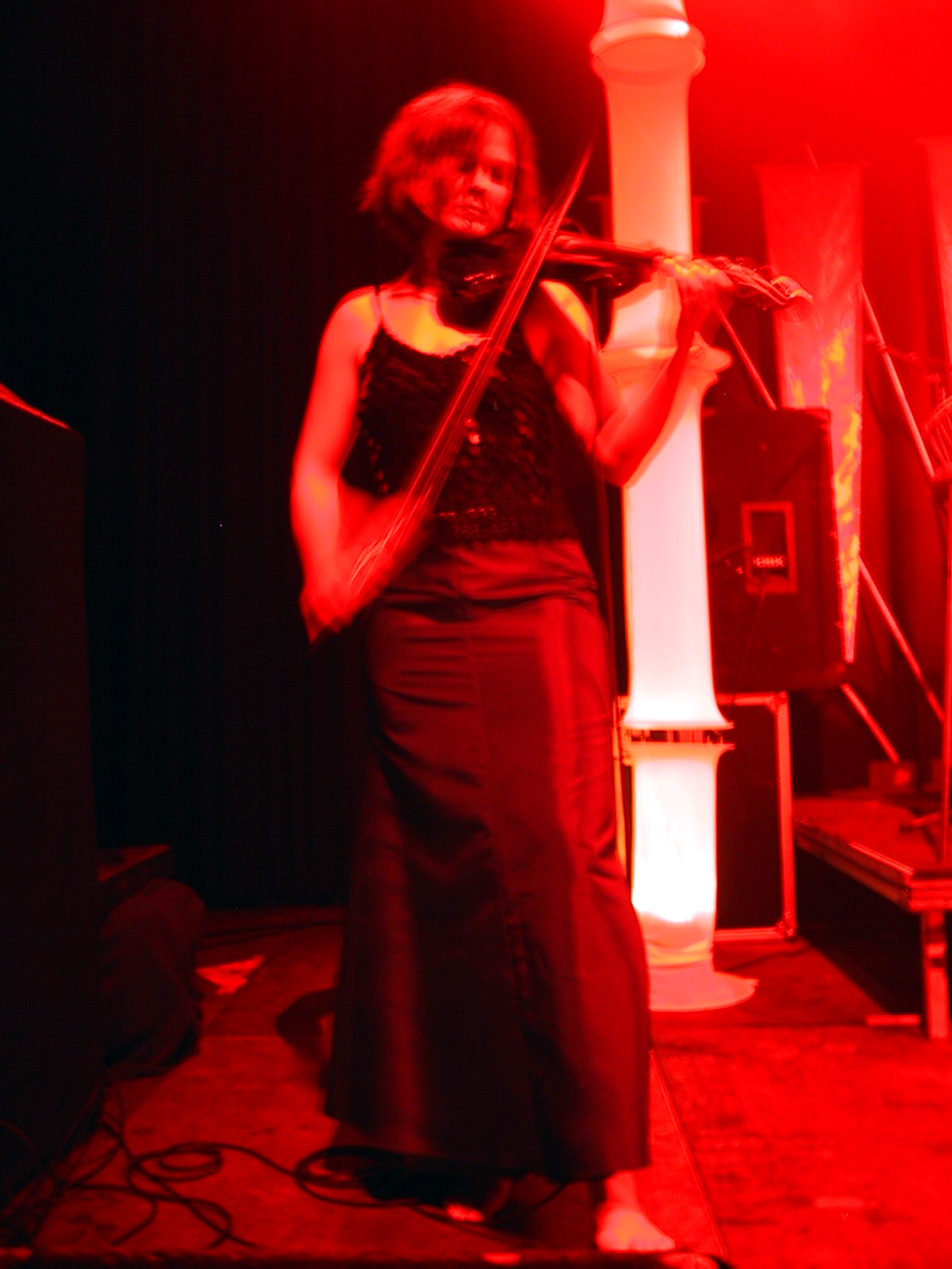 Karin Beischer from the music groupe MILA MAR, an avantgarde-folk Band, in concert at Zeche Carl.